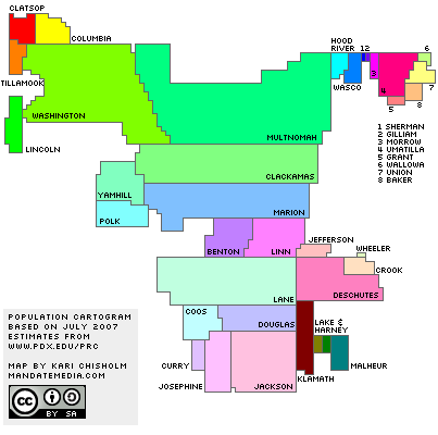 Population cartogram based on July 2007 estimates from Portland State University.